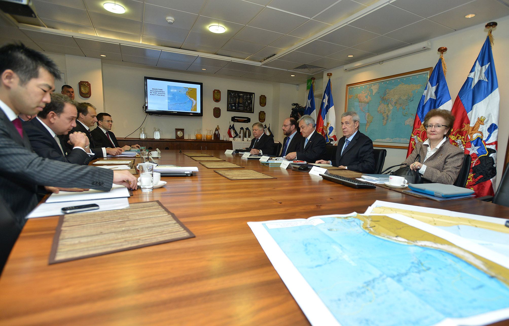 Chilean President Sebastián Piñera and the Legal team that defended Chile in the Case concerning maritime boundaries with Peru